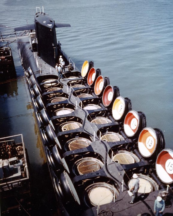 The U.S. Navy ballistic missile submarine USS Sam Rayburn (SSBN-635) at the Newport News Shipbuilding & Drydock Co., Newport News, Virginia (USA), probably undergoing tests, circa 1964-65. Note open tubes for “Polaris” missiles, with hatch covers colored and numbered in Billiard Ball style.